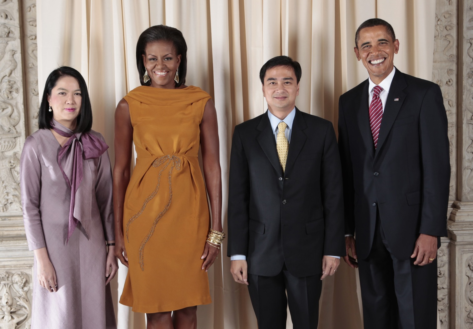 President Barack Obama and First Lady Michelle Obama pose for a photo during a reception at the Metropolitan Museum in New York with Thai Prime Minister Abhisit Vejjajiva and Dr. Pimpen Sakuntabhai.